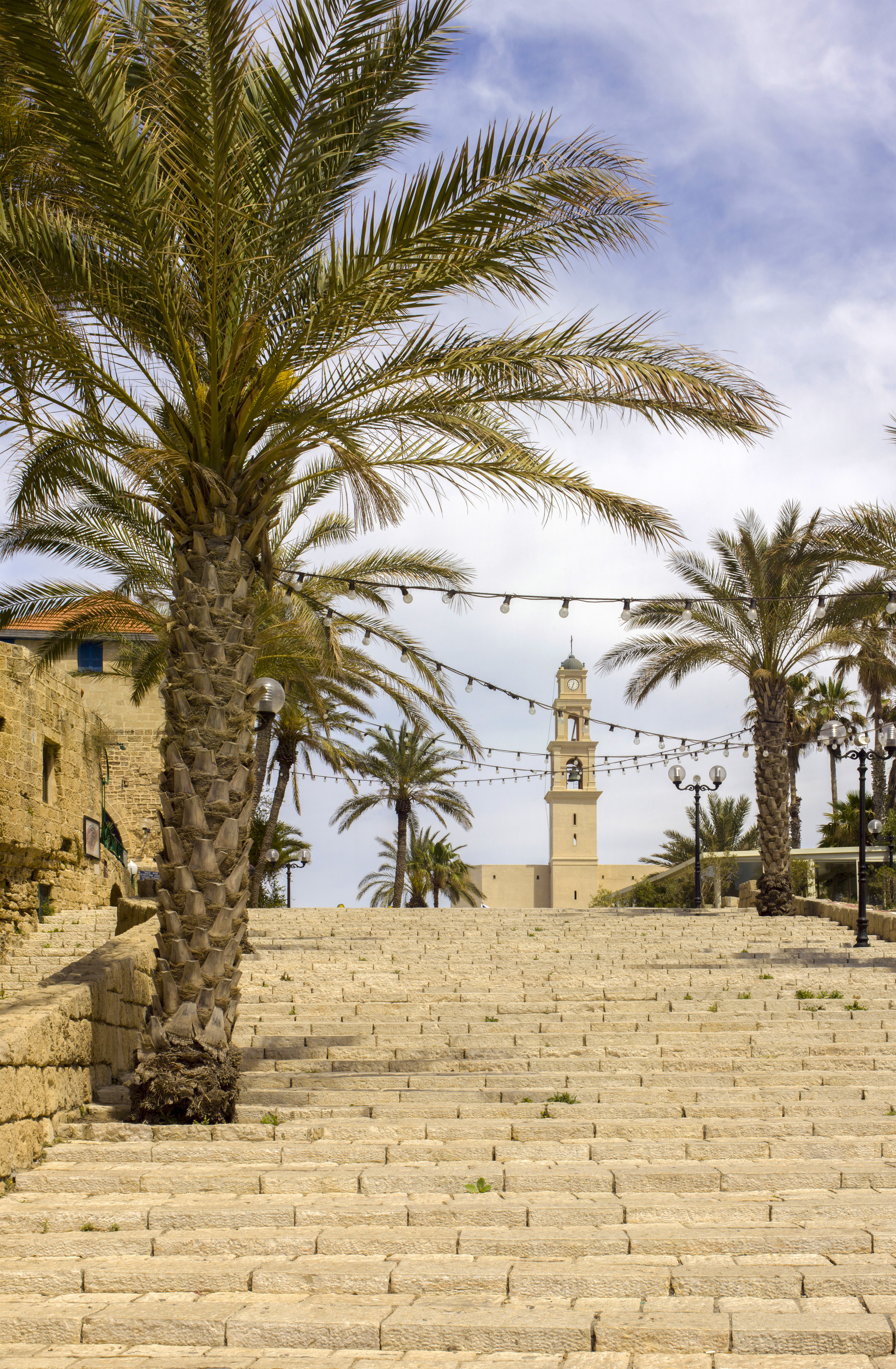 View of Kikar Kedumim street (Jaffa) and the bell tower of St. Peter's Church.